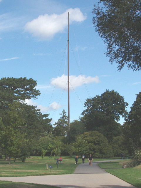 Flagpole, Kew Gardens. The flagpole is 225 feet high and is the tallest wooden flagpole in the world. There has been a flagpole on this site since 1861. This one was given in 1959 by British Columbia; it is a Douglas fir grown on Vancouver Island. (Update: Shortly after this photograph was taken, in 2007, the flagpole was taken down).